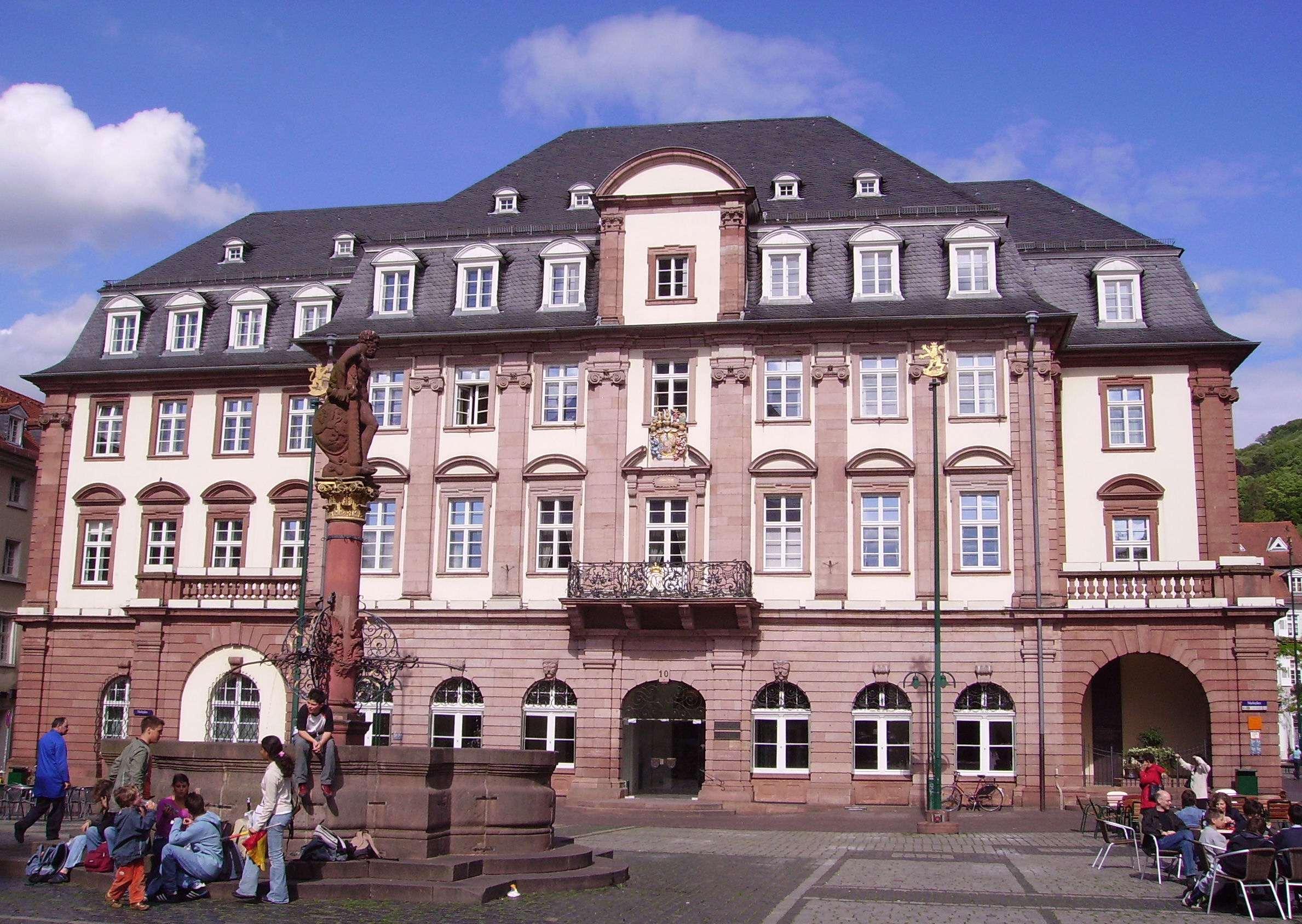 views of Heidelberg, Germany